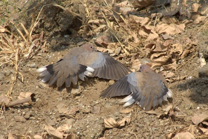 Laughing Dove (Stigmatopelia senegalensis) taking sun bath. Raju Kasambe